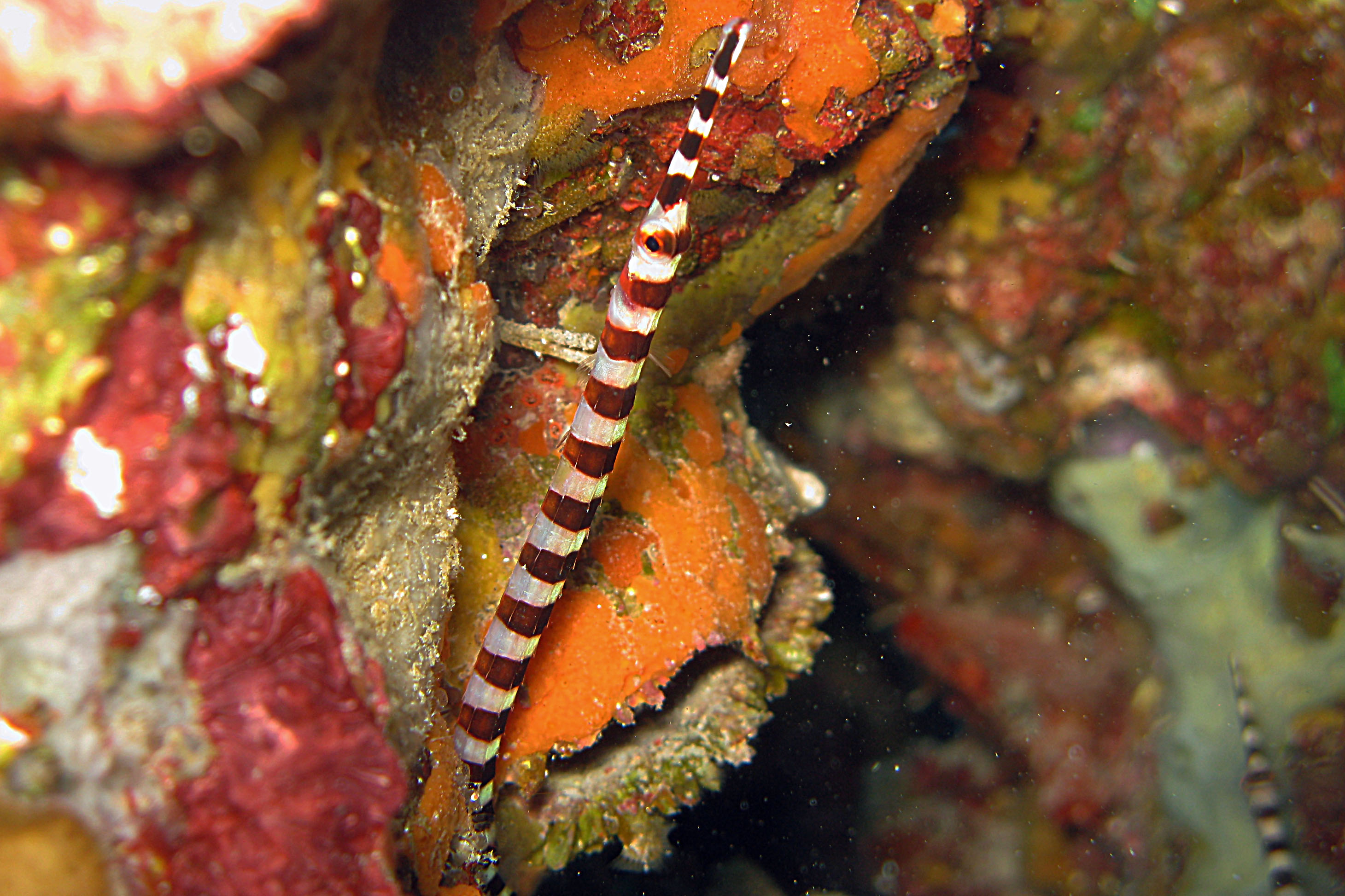 Broad - banded Pipefish - Dunckerocampus boylei, Egypt - Sinai - Dahab